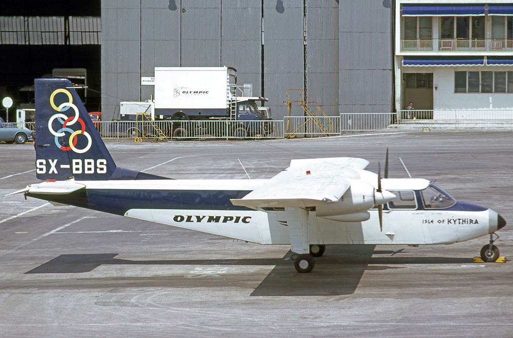 Britten-Norman Islander SX-BBS at Athens Hellenikon airport in 1973